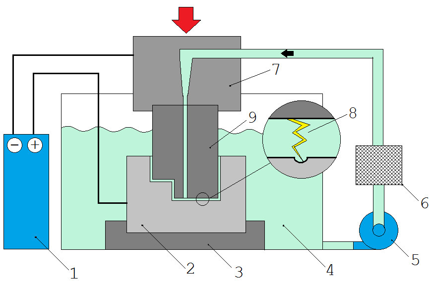 Electrical Discharge Machining scheme. 1. Pulse generator (DC) 2. Workpiece (+) 3. Fixture 4. dielectric fluid 5. Pump 6. Filter 7. Tool holder (-) 8. Spark 9. Tool